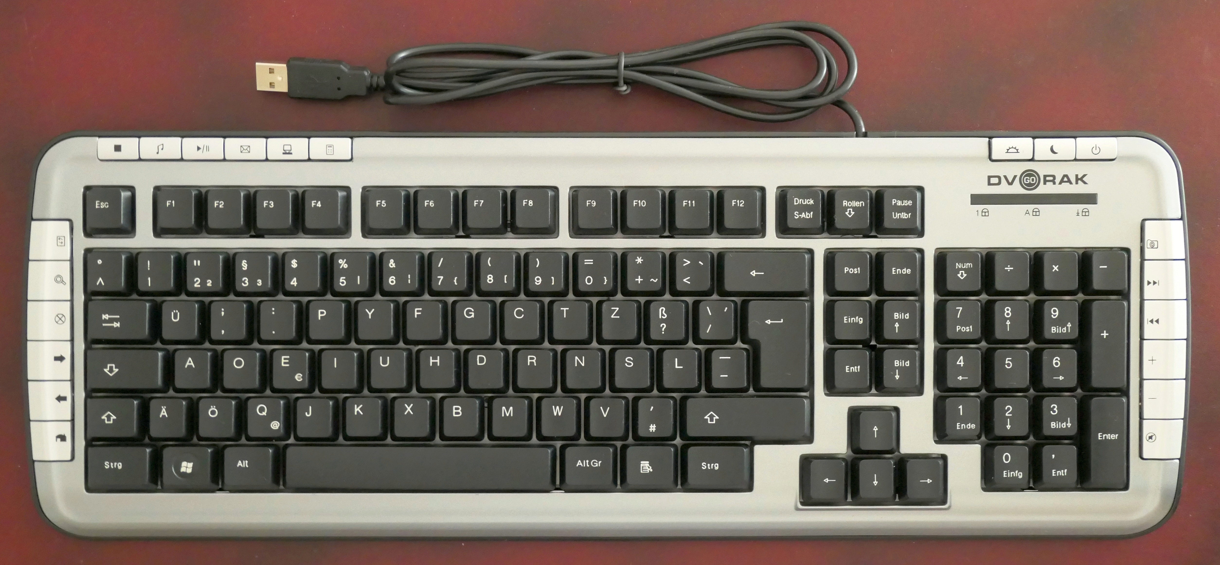 Keyboard with German Dvorak layout. This design was offered comercially 2010–2018 at (as of Oct 2019, this website is defunct).